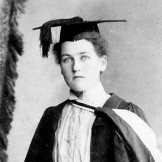 Stella May Henderson (25 October 1871 – 1 March 1962) was a New Zealand feminist, university graduate and journalist. She was the first woman parliamentary reporter for a major newspaper in the country. graduated in 1893 so guess ...